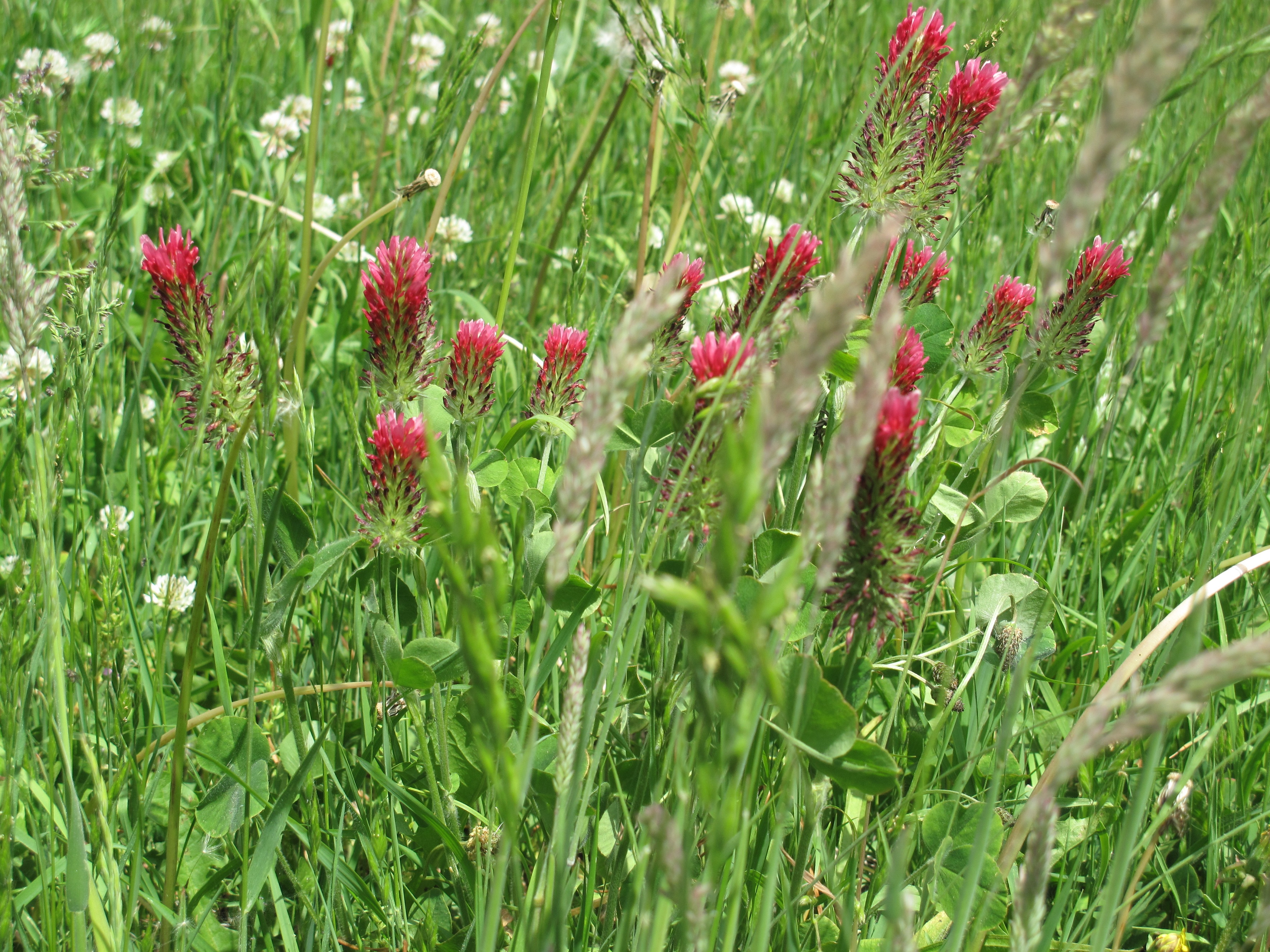 Trifolium incarnatum at the Lichtenower Mühlenfließ, a 22,8 kilometers long stream in the districts Märkisch-Oderland and Oder-Spree, Brandenburg, Germany. It is named after the village Lichtenow, part of the municipality Rüdersdorf.